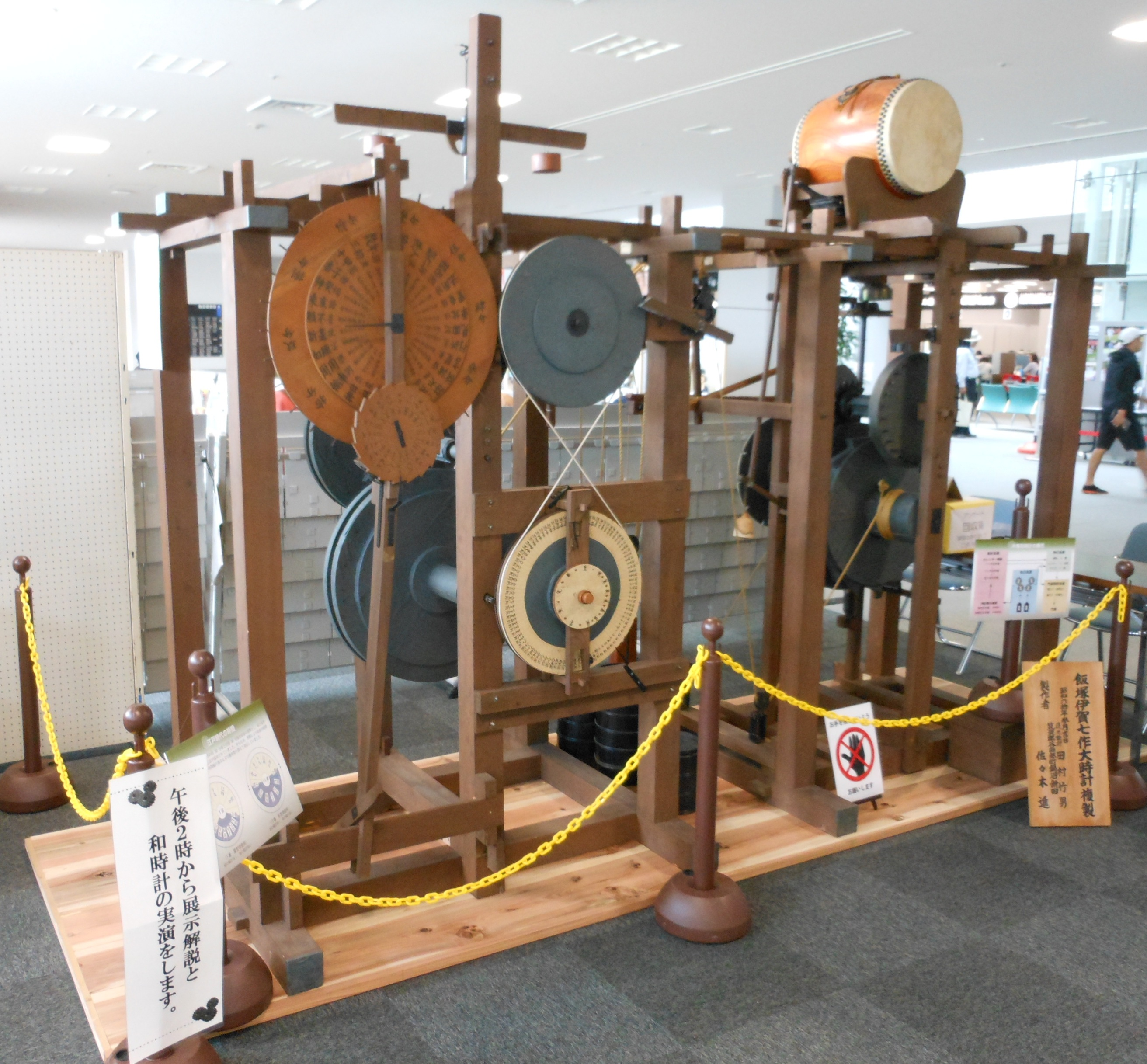 This is a Japanese clock (restored) made by Iizuka Igashichi, a Japanese scientist in Edo period.